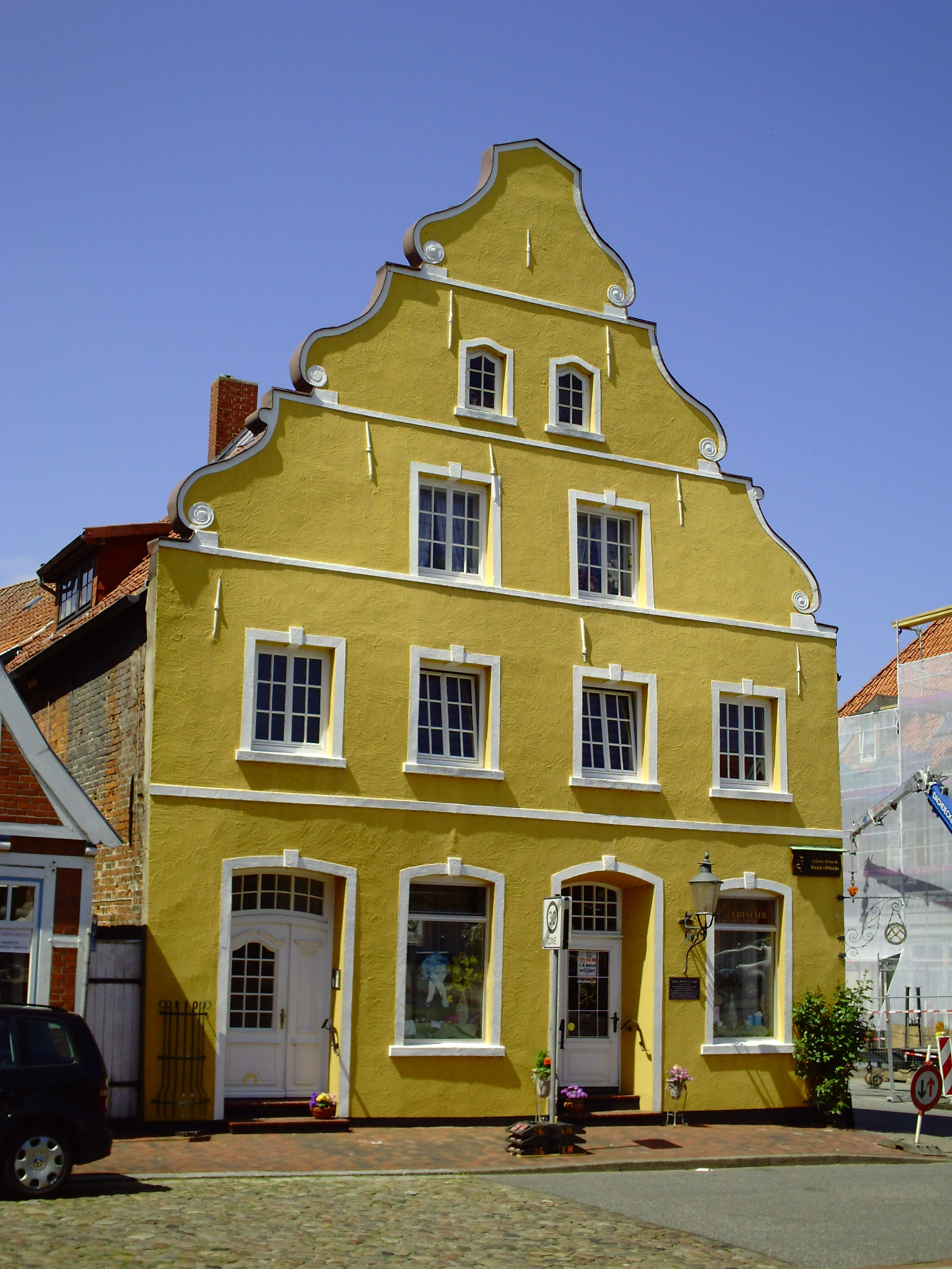 Baroque gable house in Otterndorf, Lower Saxony, Germany